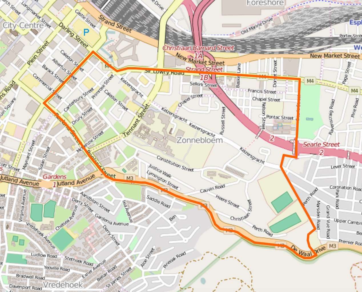 Map of Zonnebloem